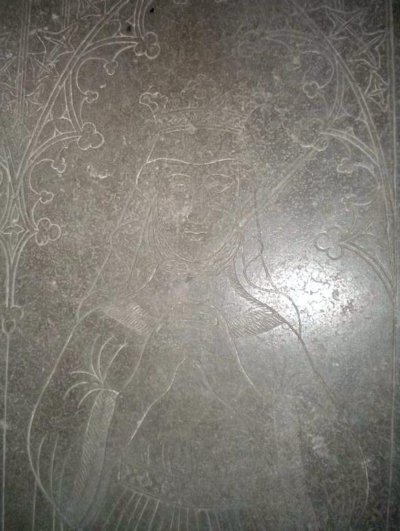 Sculpted image (16th century) of Queen Richeza of Sweden on the grave of her husband King Eric at Varnhem Church (she was buried later in Denmark)Place: Axvall, Sweden